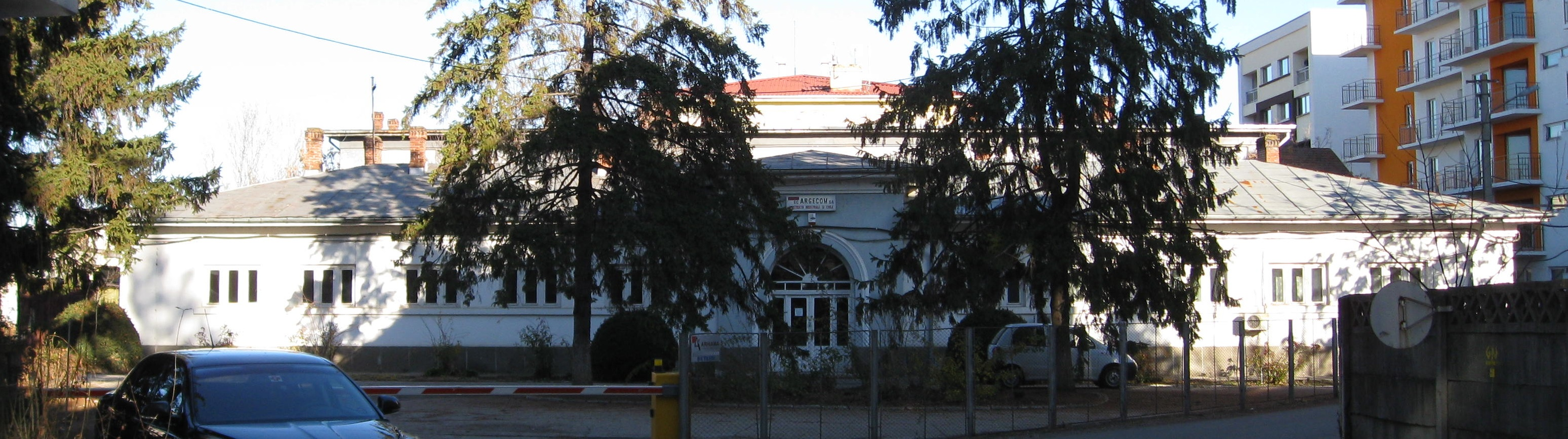 Entrance building to the Piteşti prison in Romania